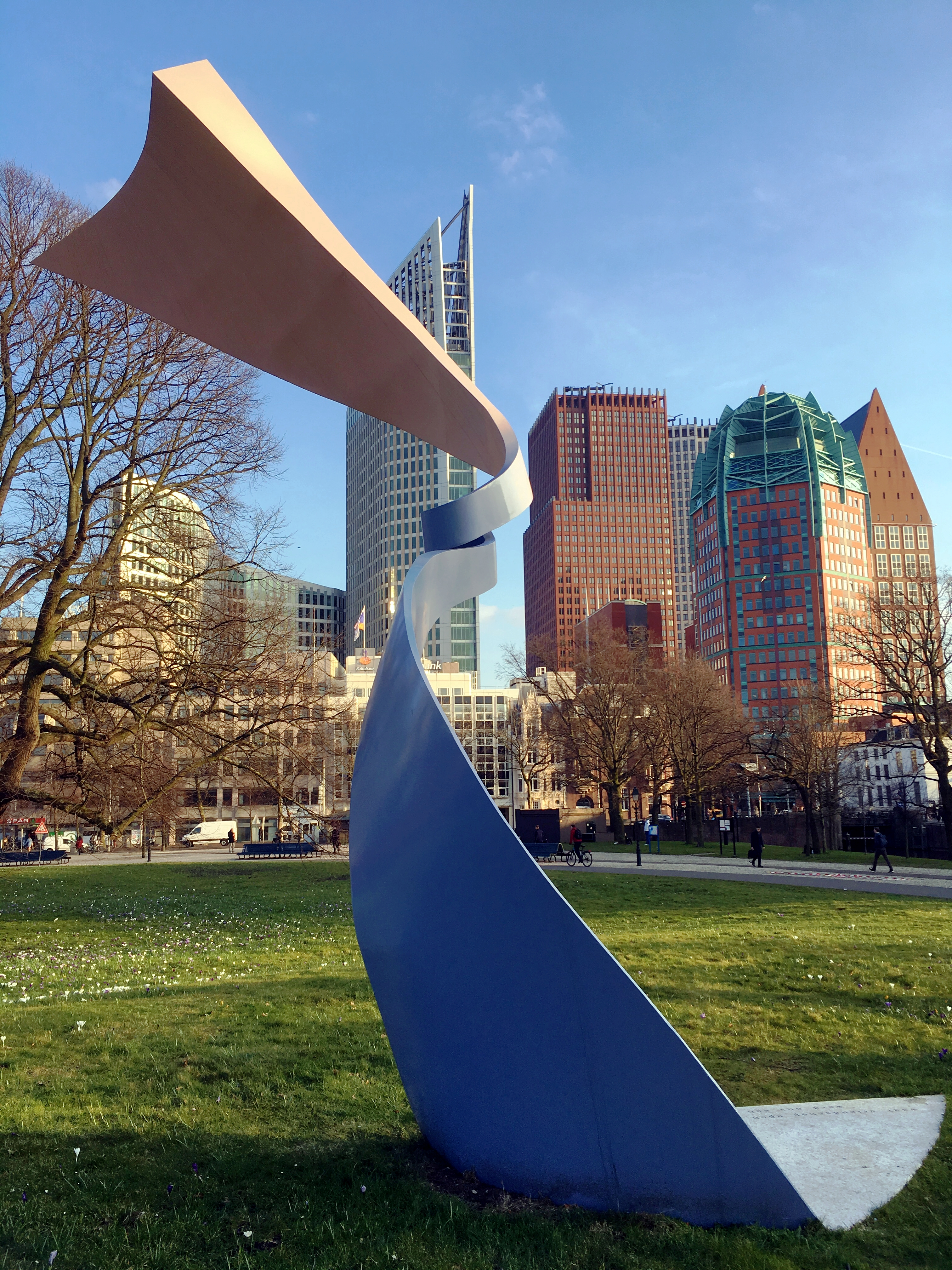 International Homo Memorial The Hague, unvealed in 1993, to commemorate all gay men and lesbians, who have been, or are still being subjected to persecution or oppression because of their homosexuality, all over the world.